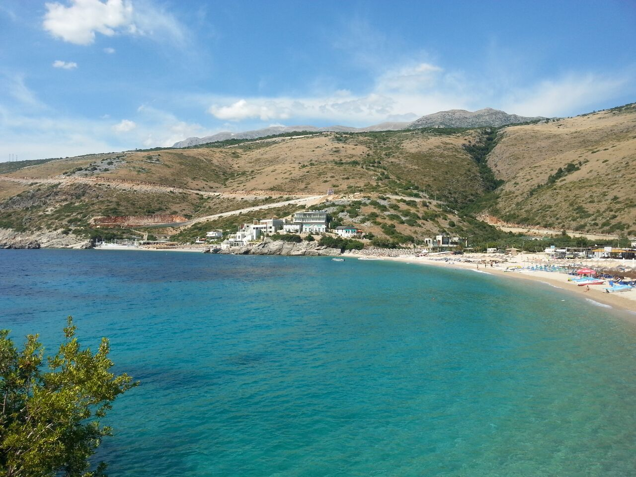 September 2015